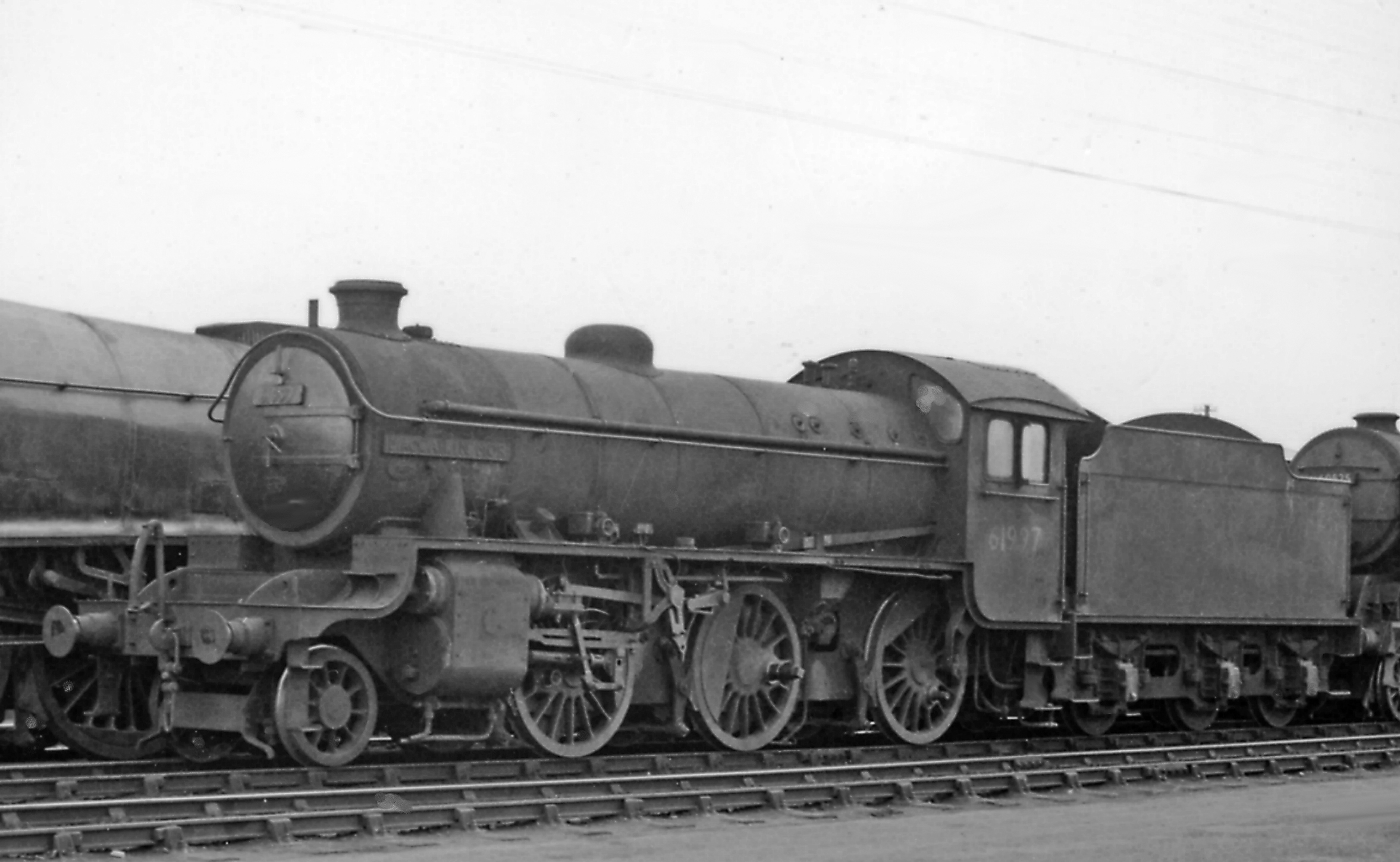 Thompson prototype K1 2-6-0 in Doncaster Carr Locomotive Yard. Minus its couplings and lined up with other locomotives awaiting attention at Doncaster Works is K1/1 No. 61997 'MacCailin Mor', the two-cylinder rebuild (12/45) of former Gresley three-cylinder V4 2-6-2 No. 3445 built in 1/39: it was the prototype of the Peppercorn K1 2-6-0s and was withdrawn in 6/61, so was no doubt out of use here in April 1961.